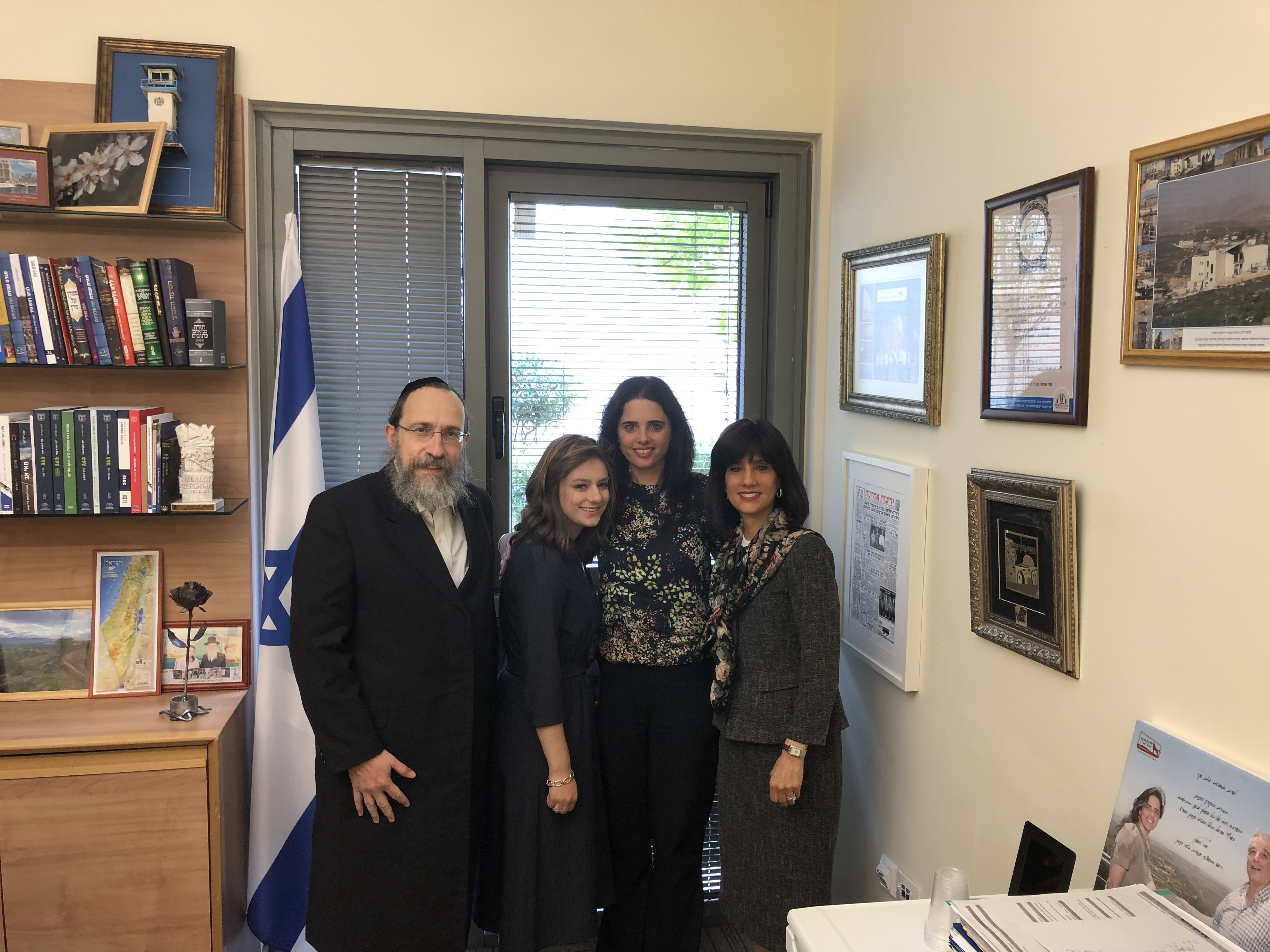 Shaked